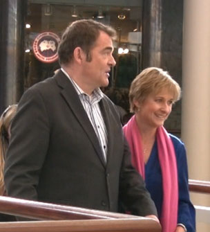 CBC Live event at Sherway Gardens.